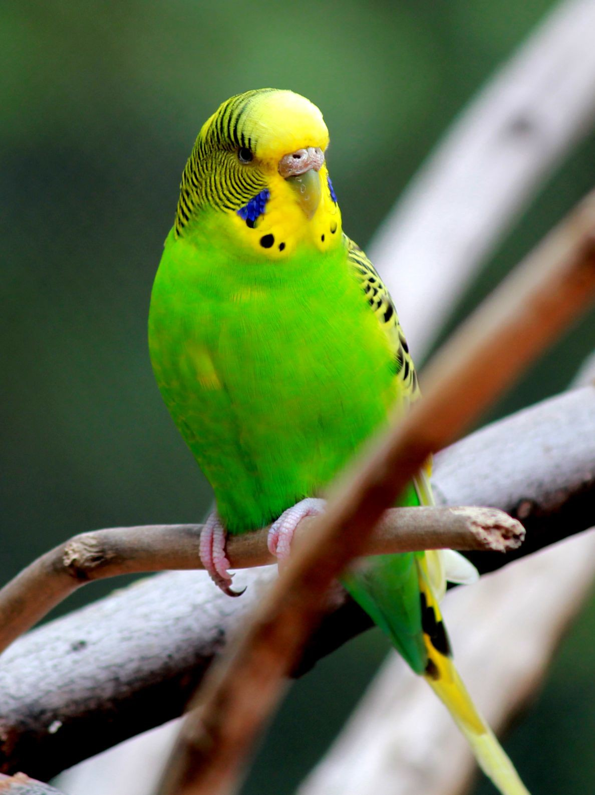 A female Budgerigar at Atlanta Zoo, Georgia, USA.